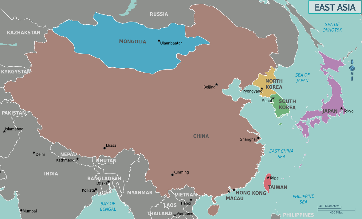 Map of East Asia for use on Wikivoyage, English version